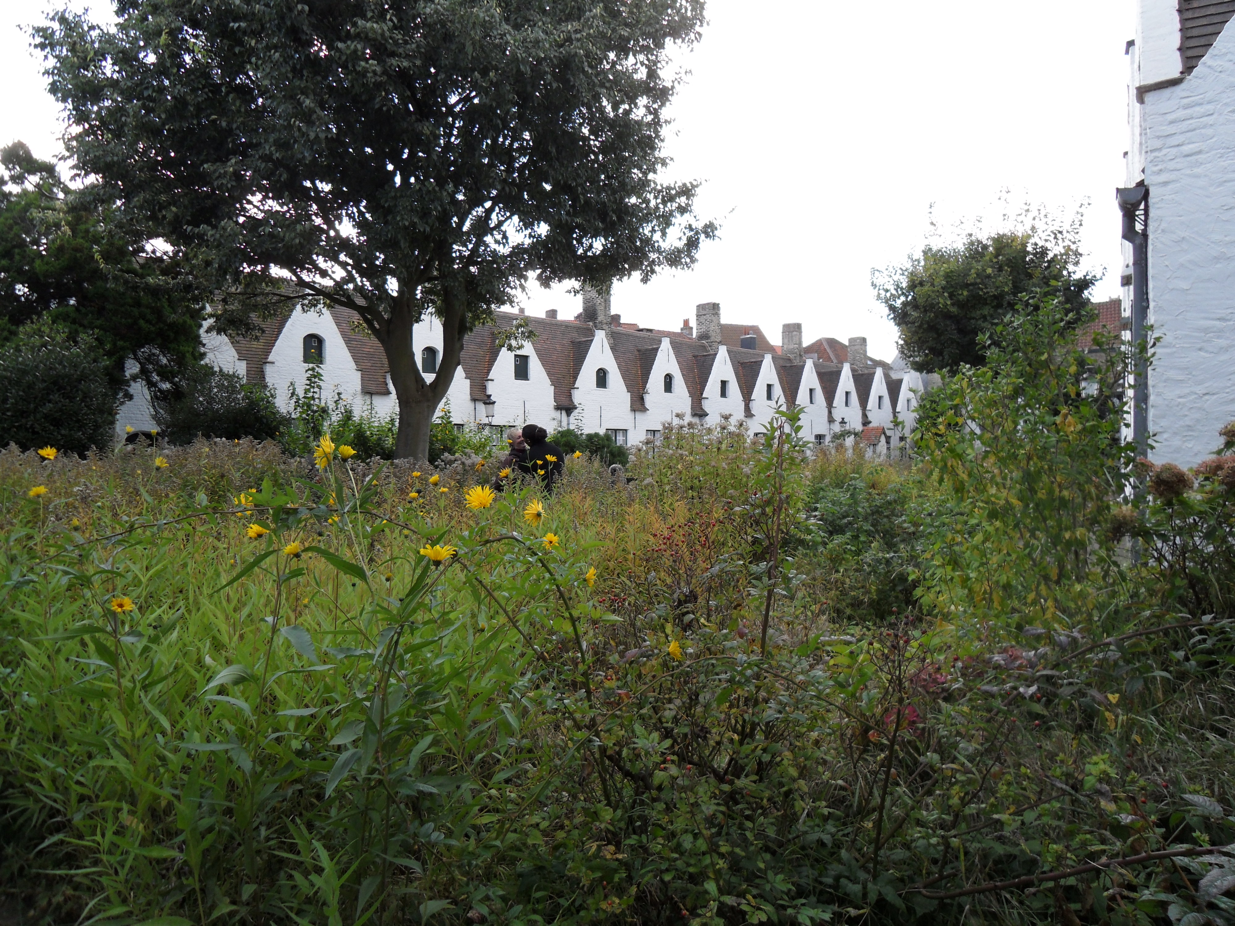 Sint-Jozef